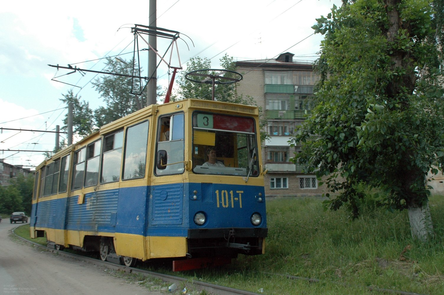 Tram in Zlatoust, Russia